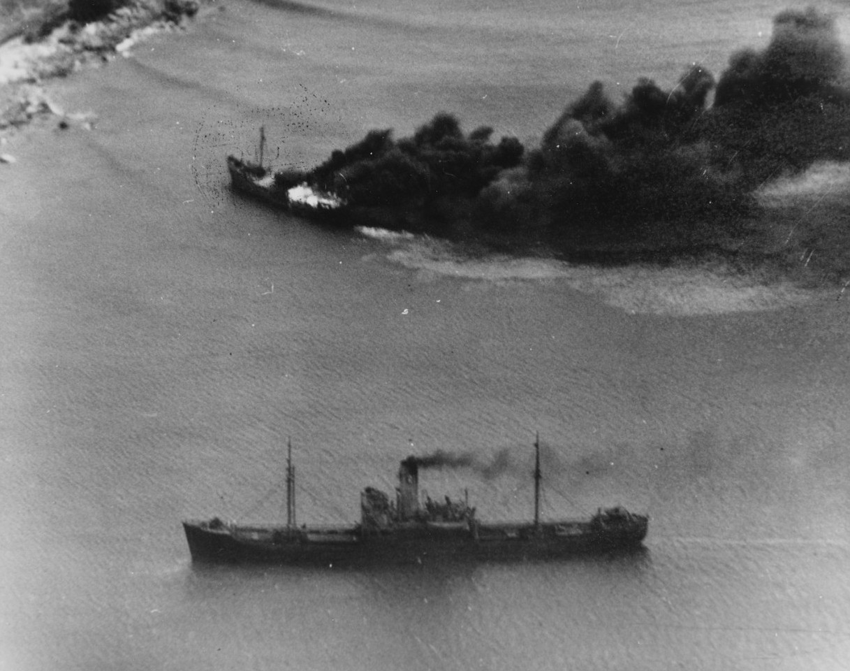 Japanese convoy under attack from USS LEXINGTON (CV-16), near Juinhon, French Indochina, 12 January 1945. These two ships are heading for the beach. Burning vessel is a tanker of about 2500 tons. The other is a freighter of about 4500 tons. Position: 11-10' N, 108-50' E